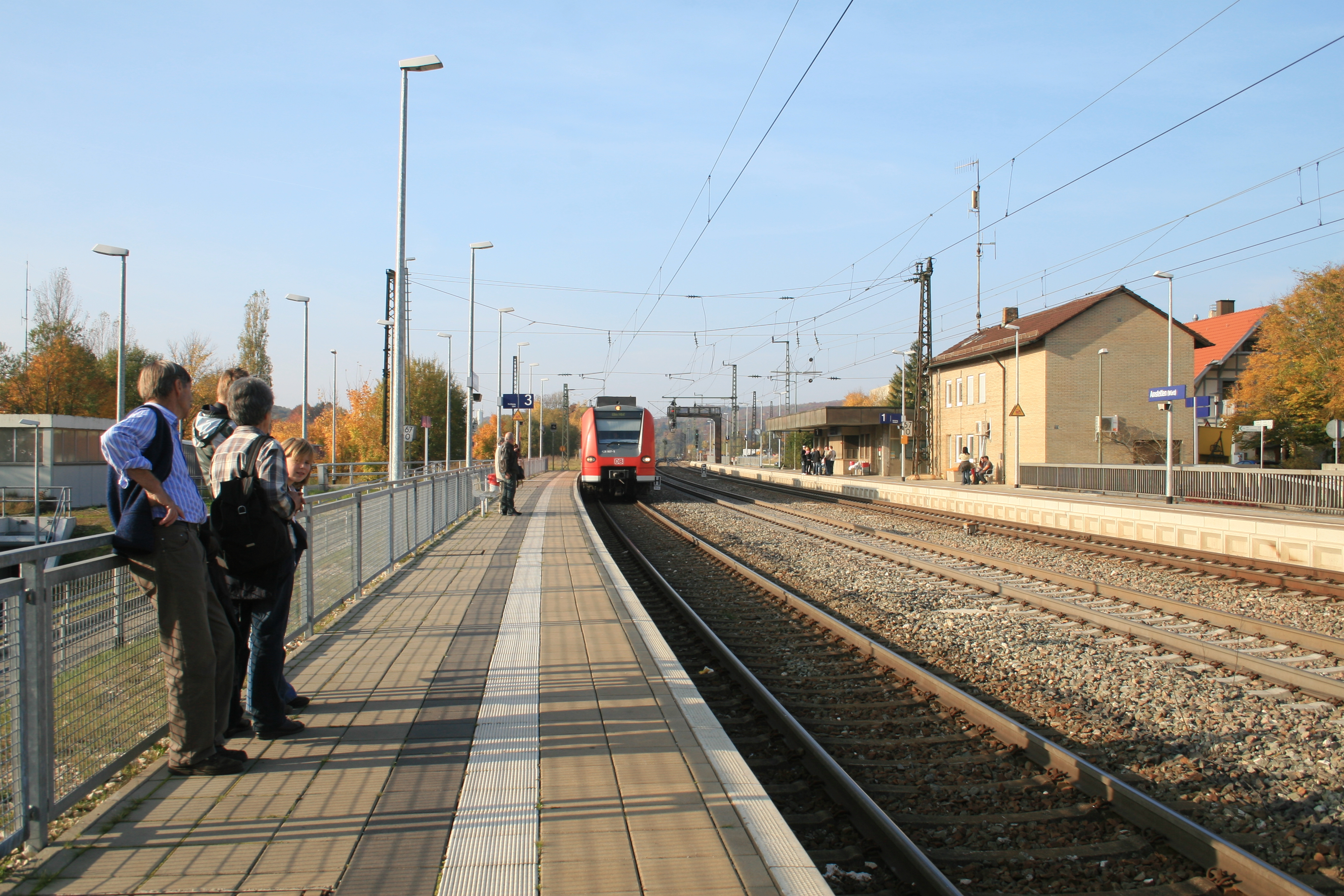 Railway station of Amstetten in Württemberg, as seen from platform 3 looking north